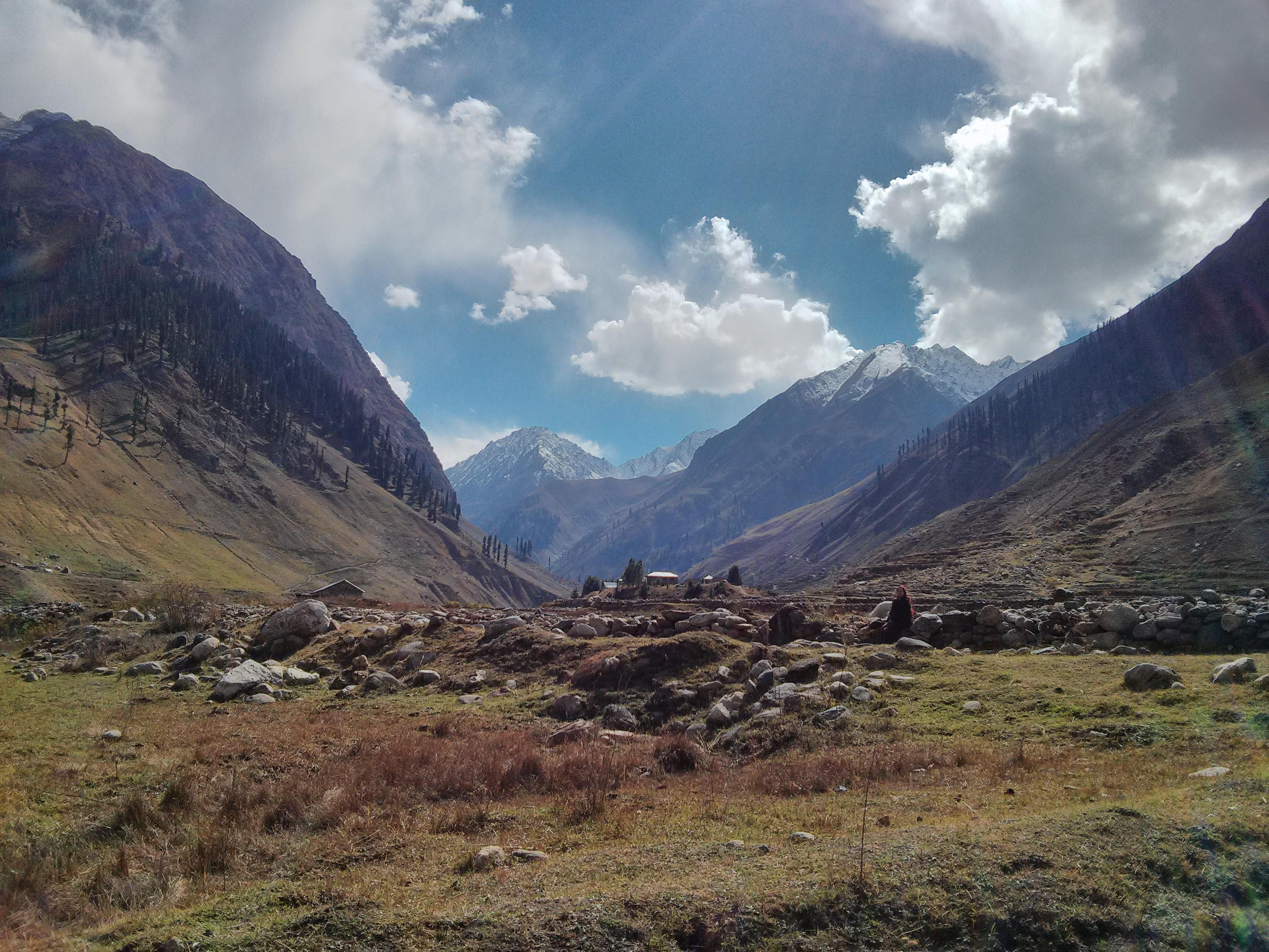 Enroute Kalam Valley